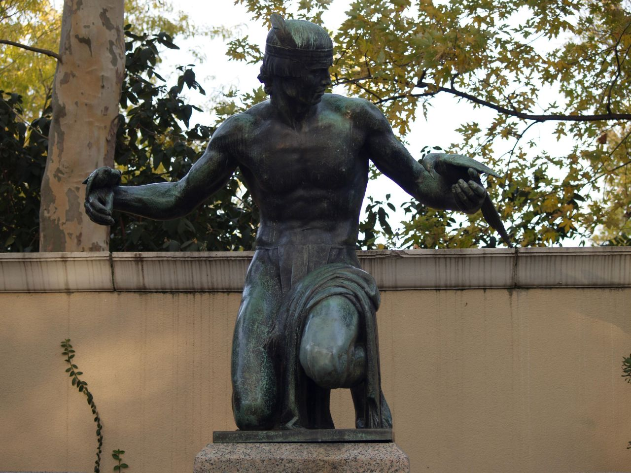 Zuni Bird Charmer (1931), by Walker Hancock, Jessie Tennille Maschmeyer Memorial Fountain, near Bird House, St. Louis Zoo, St. Louis, Missouri.